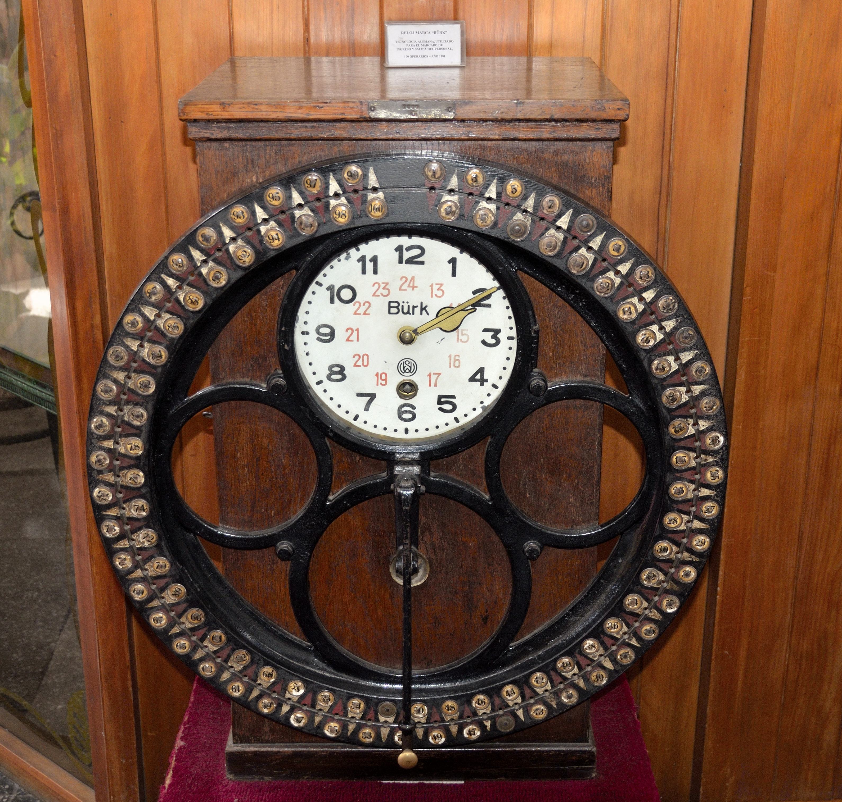 Bürk brand watch, of German origin, used for controlling entry and exit of personnel. Her control of up to 100 workers. 1881. Present at the Museum of Man and Technology in the city of Salto. Uruguay.